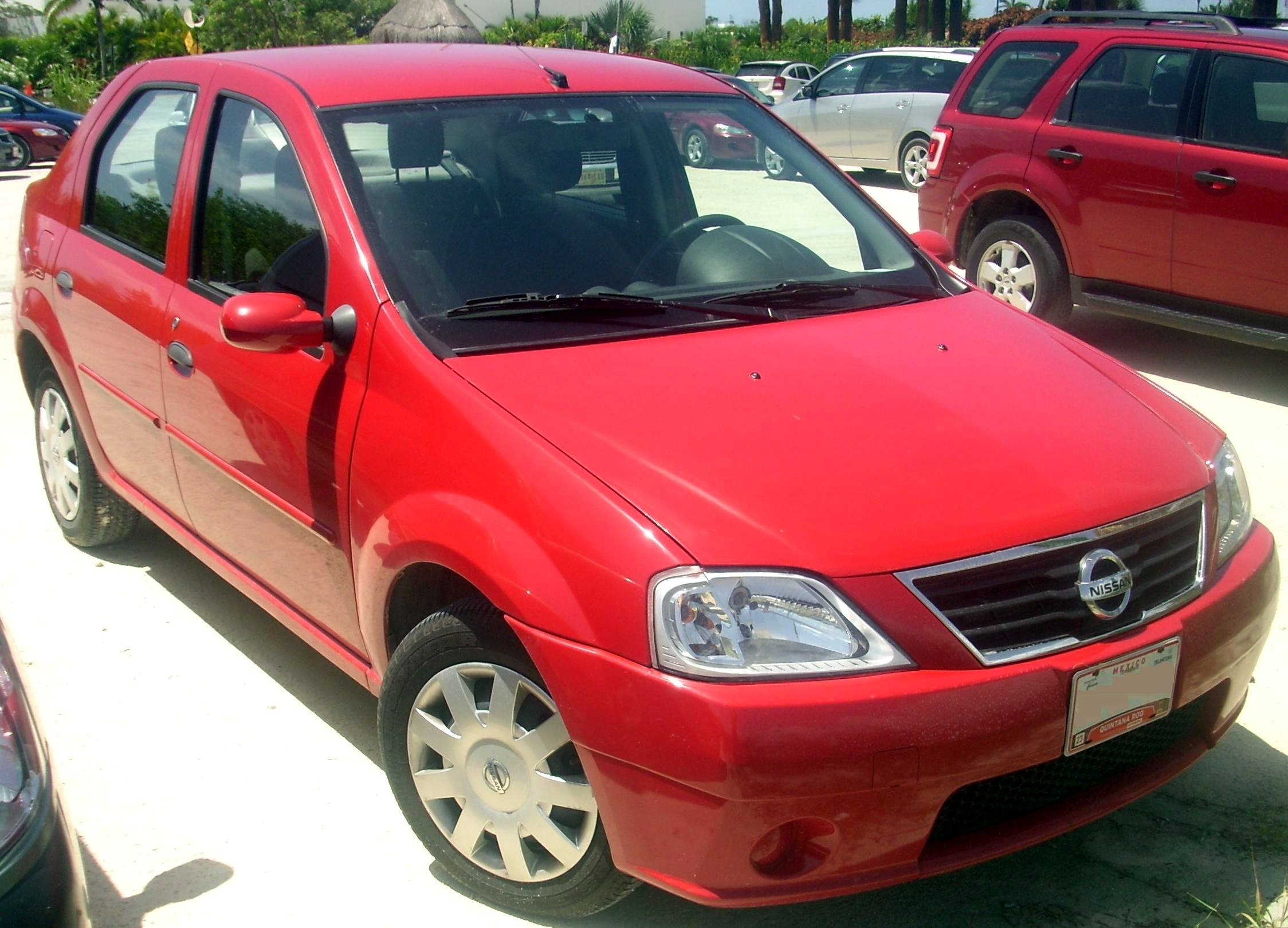 2008-present Nissan Aprio photographed in Cancun, Quintana Roo, Mexico